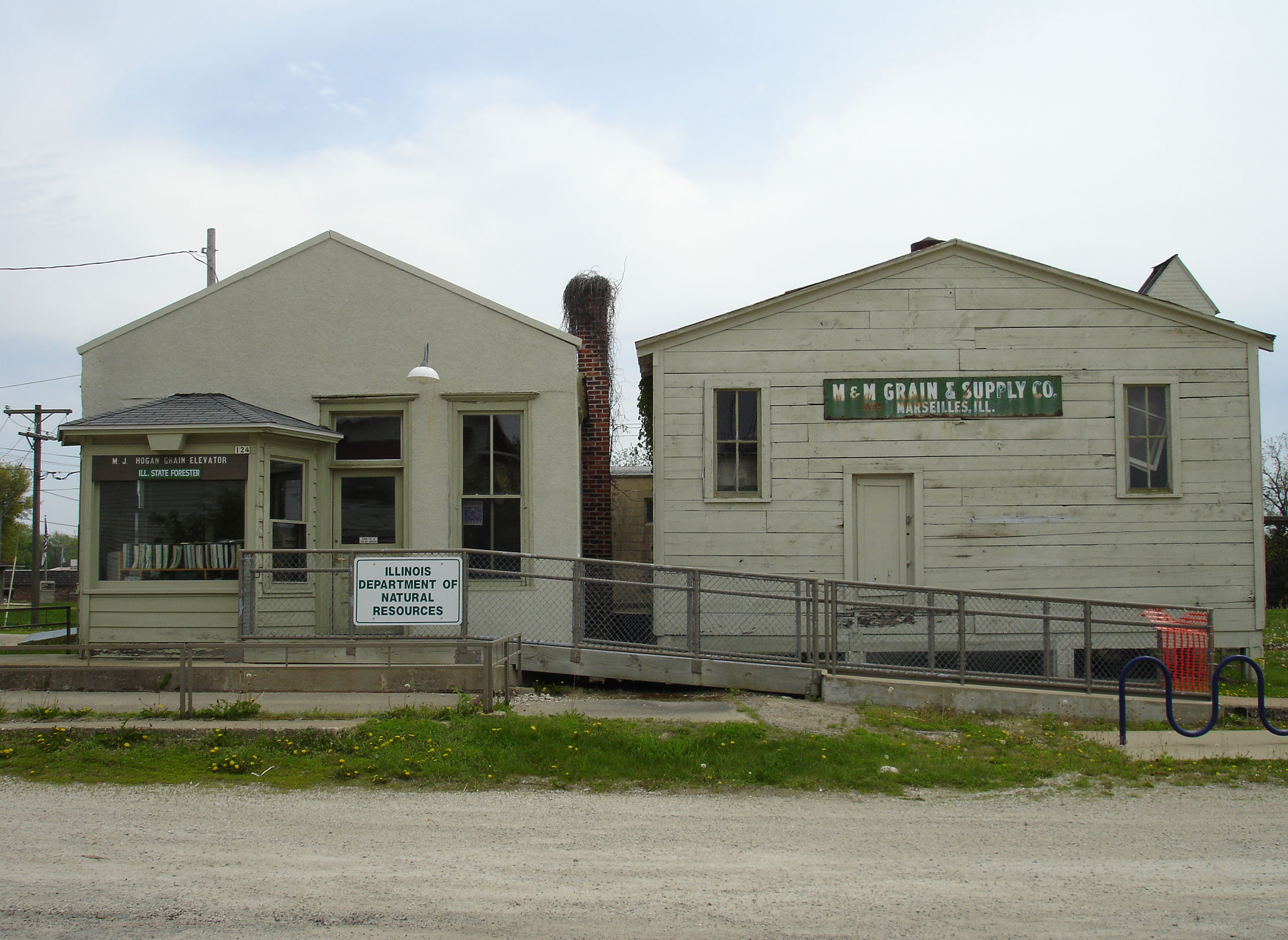 The office and scale house at Armour's Warehouse (aka Seneca Grain Elevator), Seneca, Illinois, USA. Part of the warehouse's listing on the U.S. National Register of Historic Places.